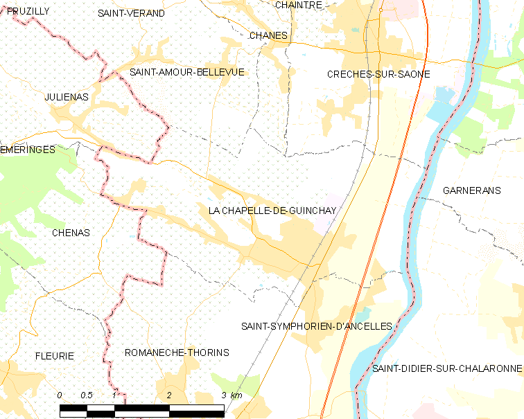 Map of French municipality